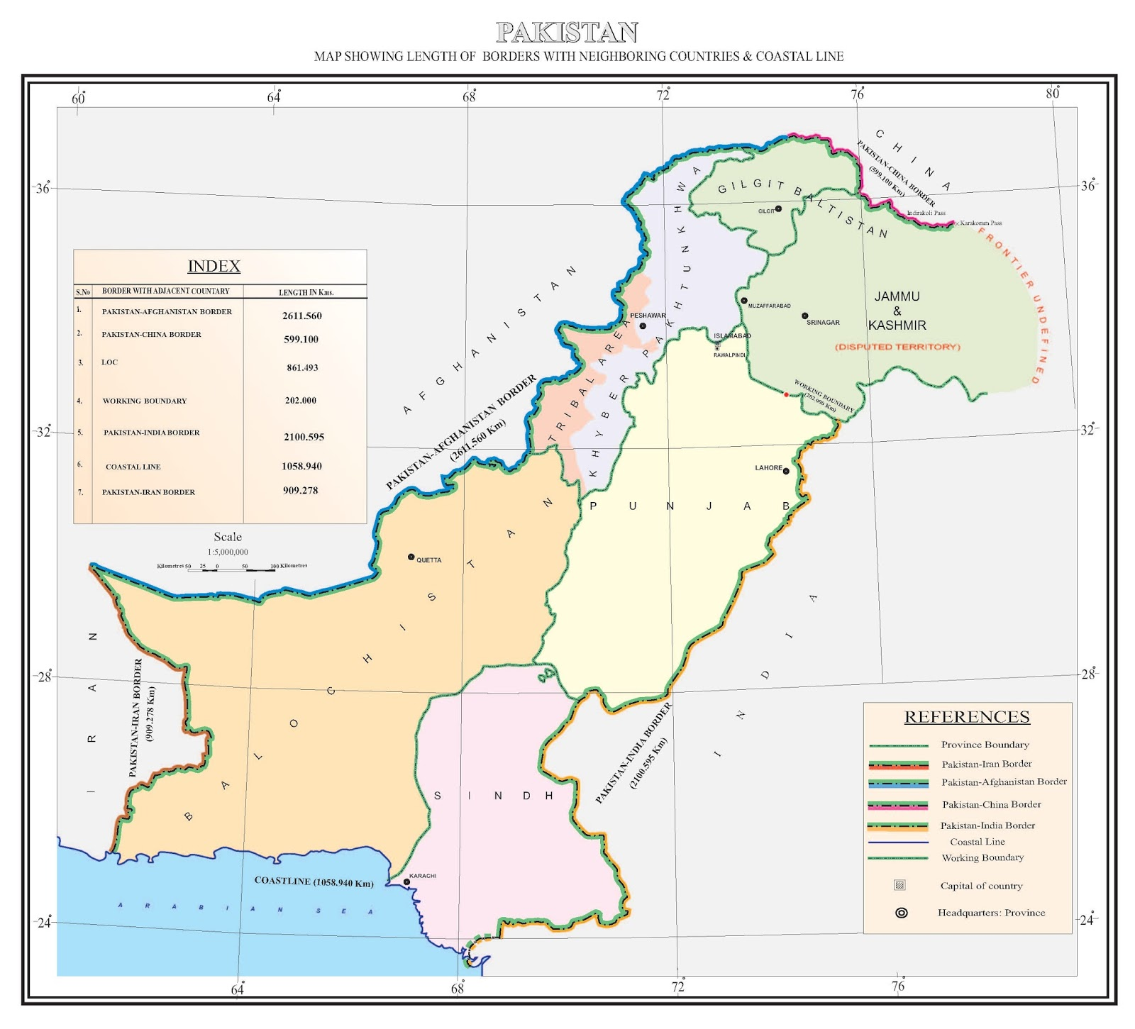 Map of Pakistan with International Boundaries